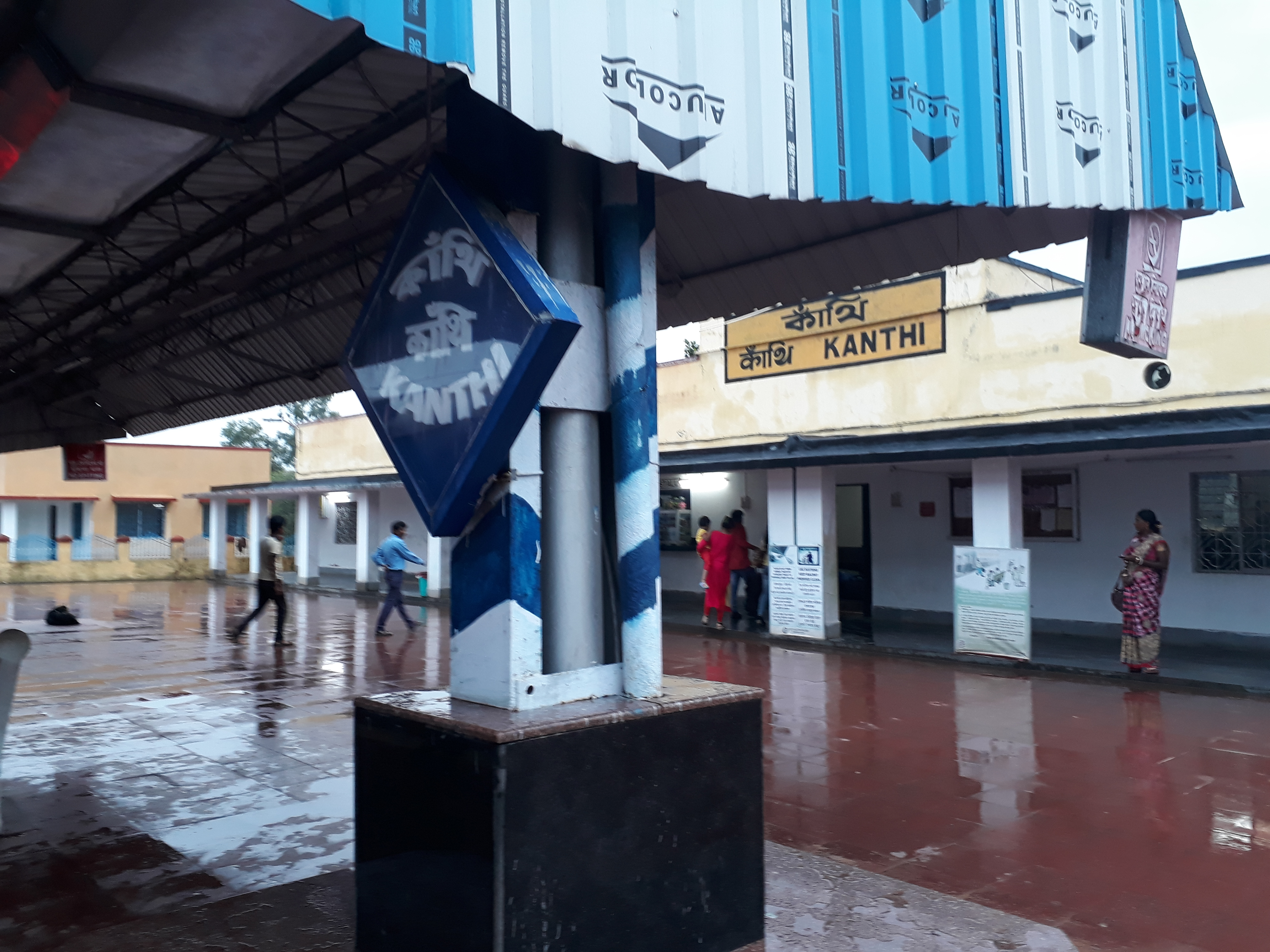 Contai Railway Station, Kanthi, East Midnapur